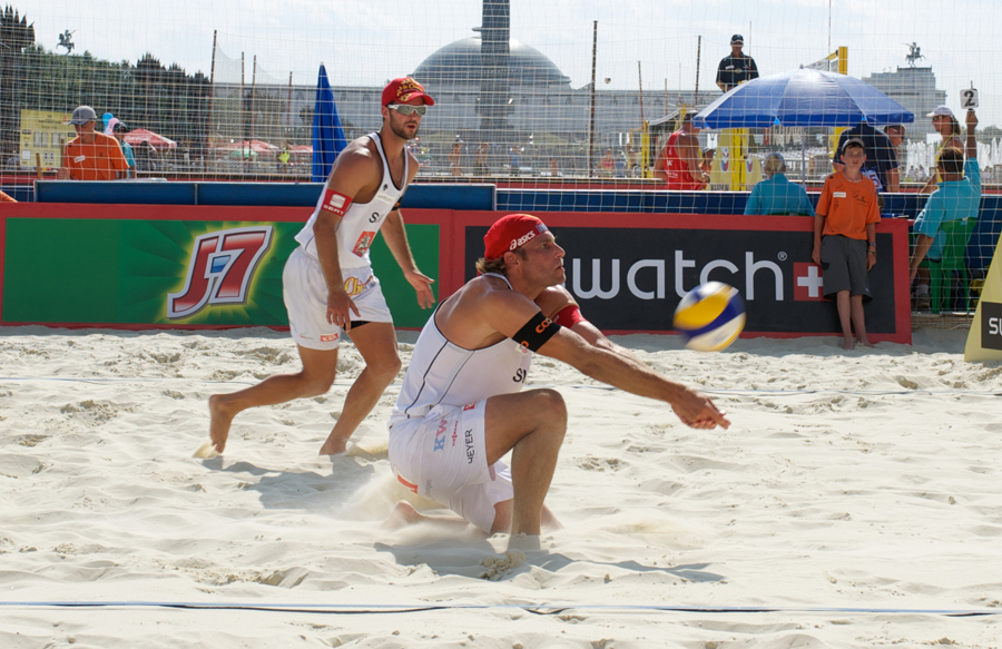 Grand Slam Moscow 2011